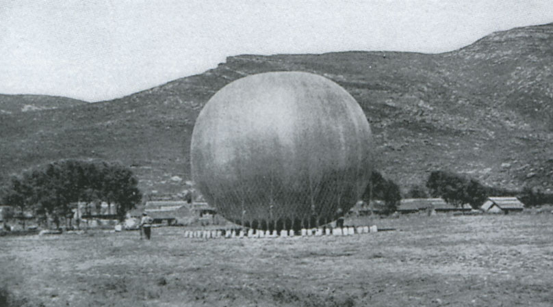 Russian Baloon in the Battle of Liaoyang.